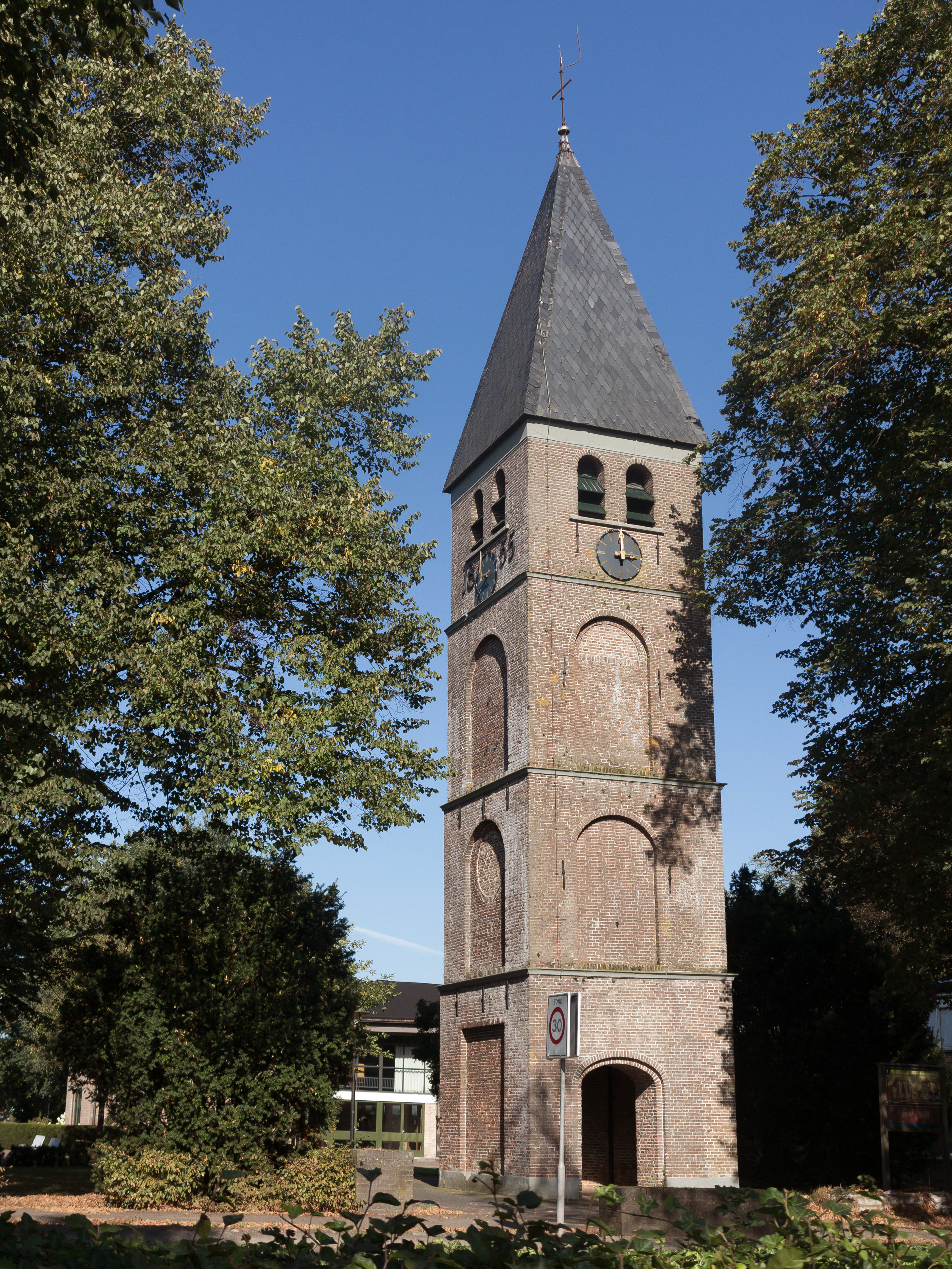 Nieuw Schoonebeek, churchtower